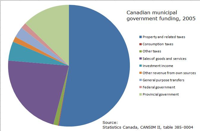 A pie chart of the funding sources of the Canadian municipal governments in 2005.